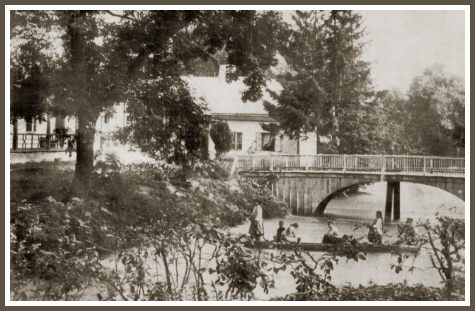 Manor house in Posada Zarszyńska